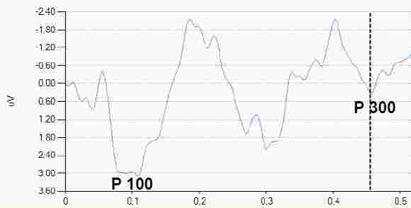 P300 in AD